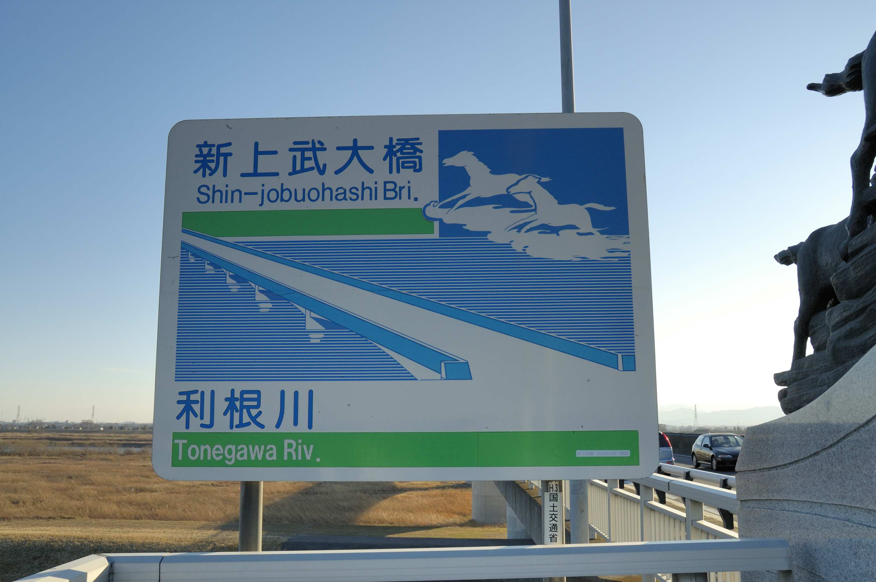 A sign of Shin-Jobu Ohashi at Gunma Prefecture side